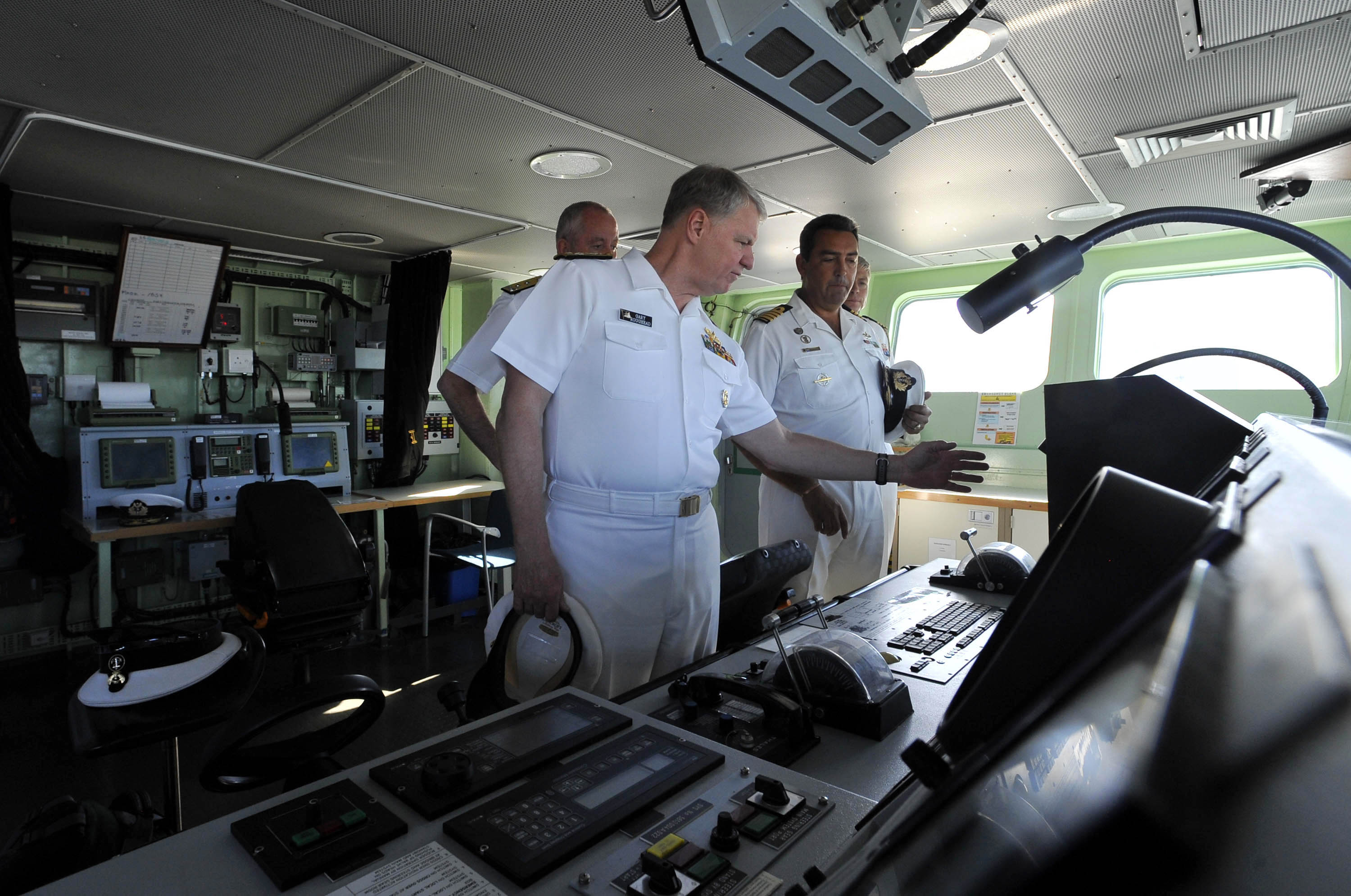 SIMON'S TOWN, South Africa (April 7, 2009) Chief of Naval Operations (CNO) Adm. Gary Roughead, left, is given a tour of the bridge of the South African Navy valour-class frigate SAS Mendi by commanding officer Capt. Jimmy Schutte during a visit to Simon's Town Naval Base. As the first CNO to visit South Africa, Roughead met with senior leadership to continue to build coalition partnerships and discuss training and maritime security cooperation in the region. (U.S. Navy photo by Mass Communication Specialist 1st Class Tiffini M. Jones/Released)